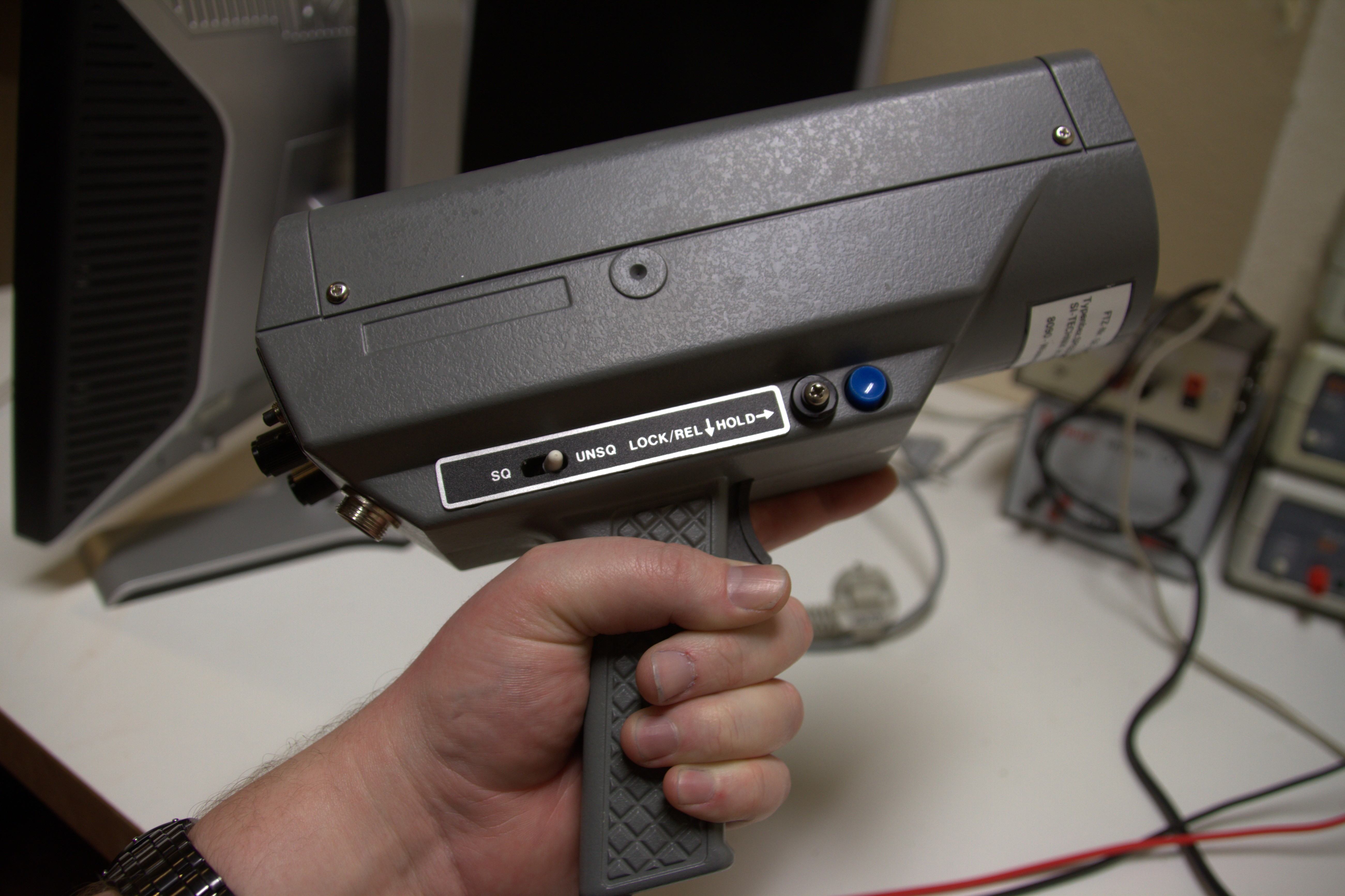 Radar gun used by the police to catch speeding motorists, or "Behoerdengeschwindigkeitsbestimmungsgeraet" as he calls it.